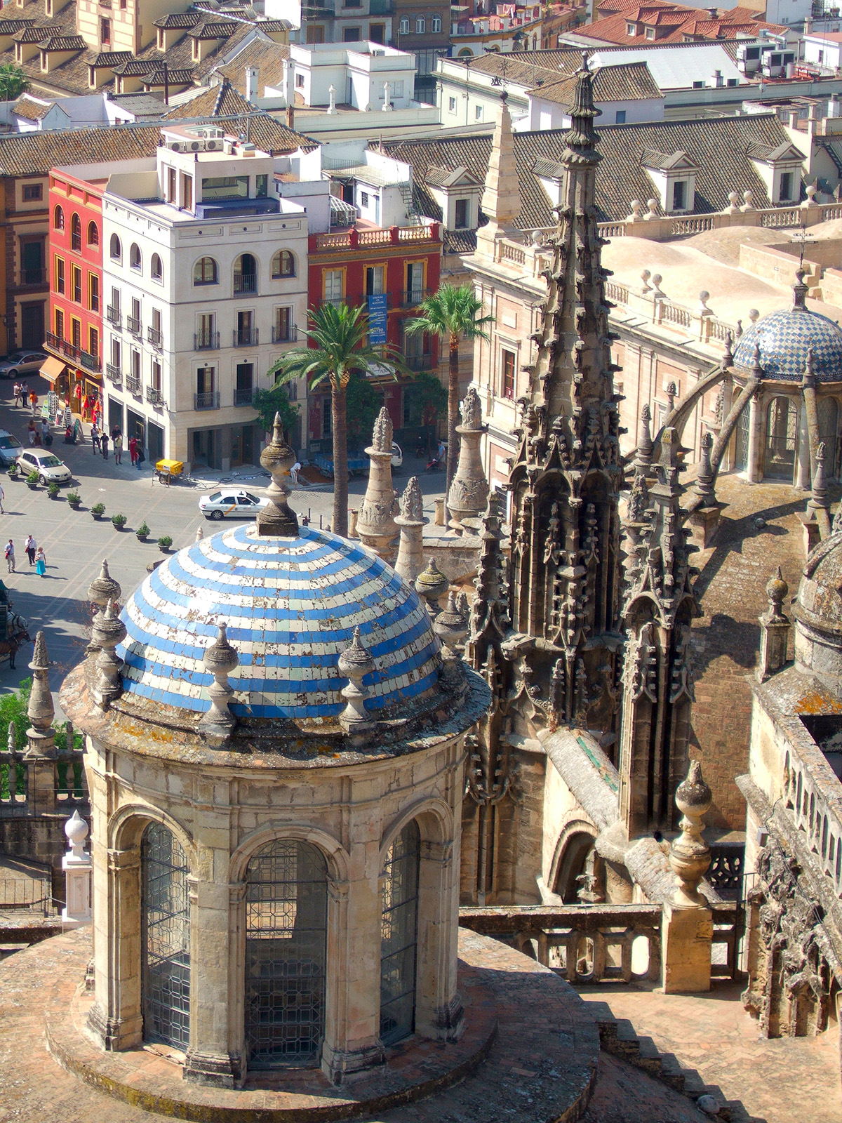 View from Seville Cathedral : the Cathedral and the Archivo de Indias. Fuji F11 Camera at ISO 100.